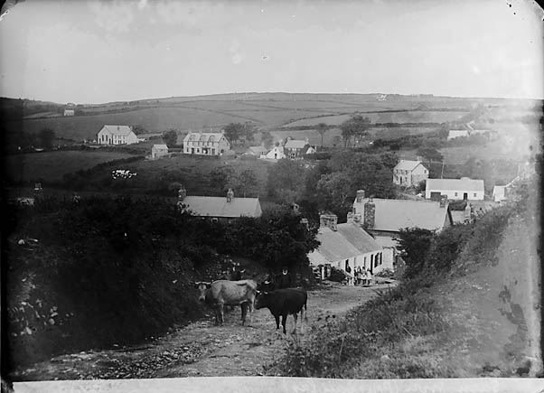 1 negative : glass, dry plate, b&w ; 12 x 16.5 cm.